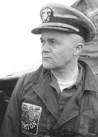 Captain Edward L. Beach, Jr. (1960) Office of the Chief of Naval Information (CHINFO), U.S. Department of the Navy